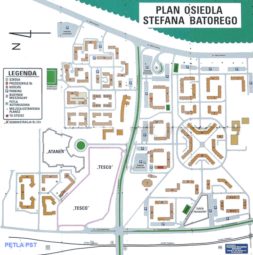 Plan of Batorego District in Poznan, table.